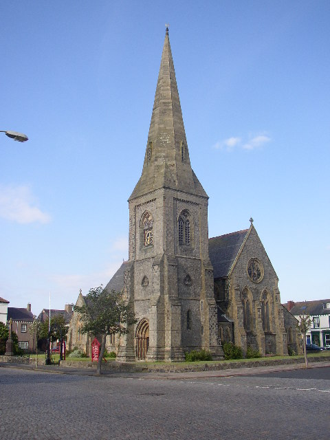 Christ Church, Solway. Christ Church was built of sandstone and Irish granite in 1870-1. Quite a large church, with nave and aisles, an apse, and a NW porch steeple with broach-spire. Inside all is brick-faced, yellow bricks with red-brick trim and also bands of brick projecting and recessed.